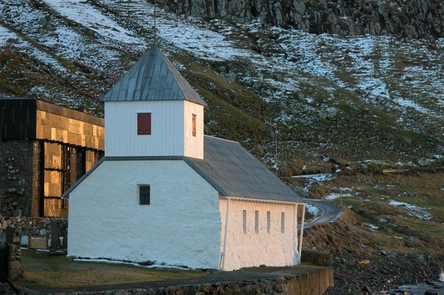 Orginal stone in the Olav church